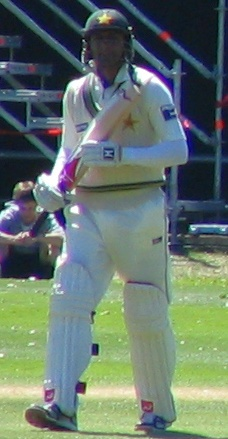 Pakistan cricketer Shoaib_Malik, during a test match between New Zealand and Pakistan at the University Oval in Dunedin, New Zealand.